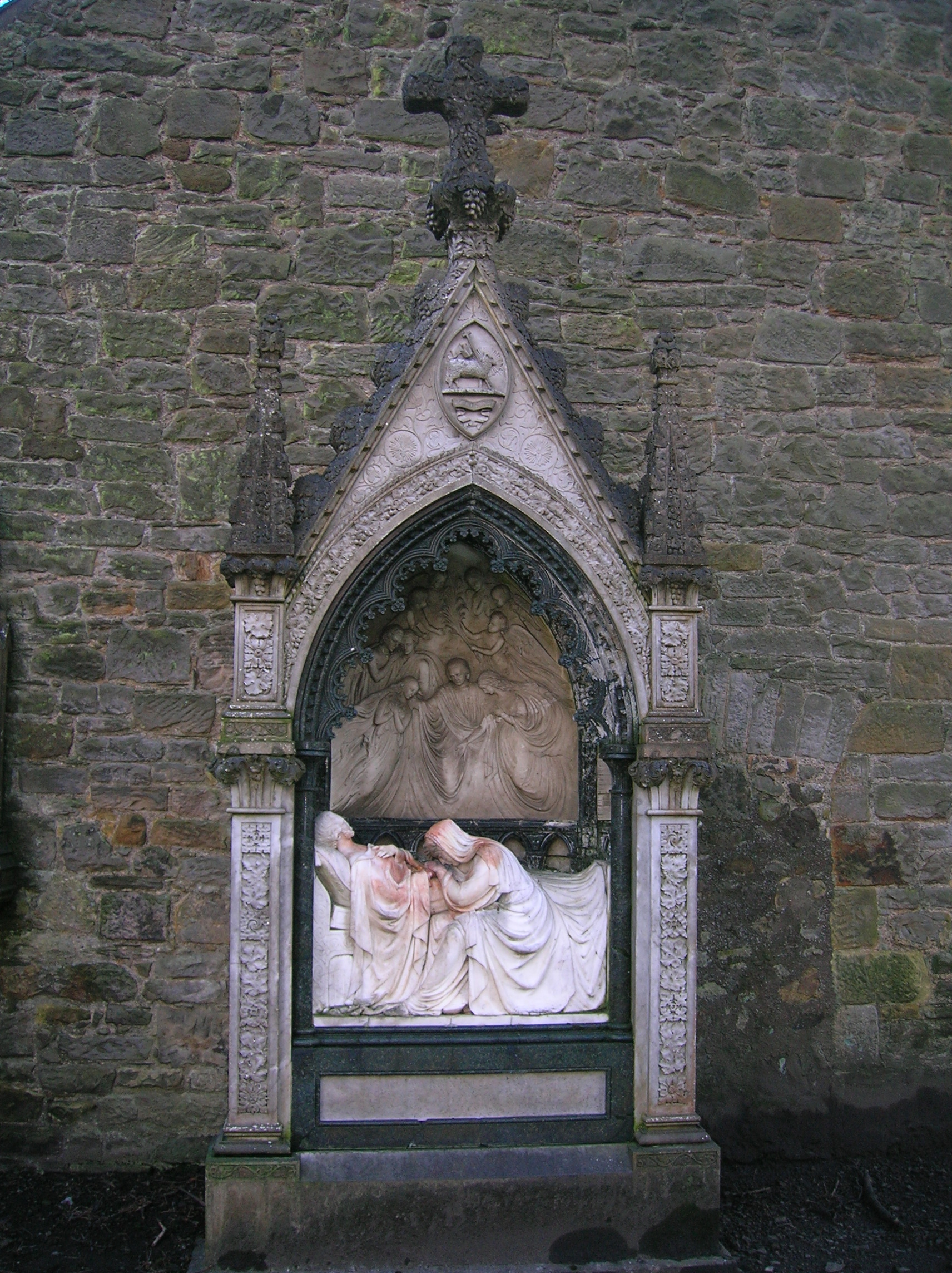 The John Speir Memorial at Beith old kirk, North Ayrshire, Scotland.